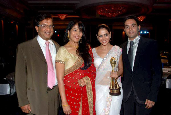 Indian actress Genelia D'Souza with her family at the CNBC Awaaz consumer awards in June 2010. From left to right, her father Neil D'Souza, her mother Jeanette D'Souza, herself, and her brother Nigel D'Souza.